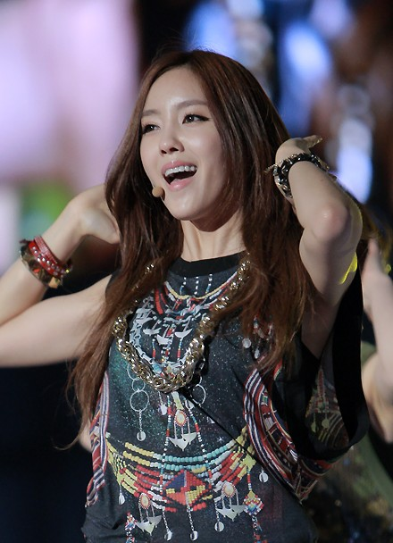 Hyomin at K-Collection in Seoul, March 2012